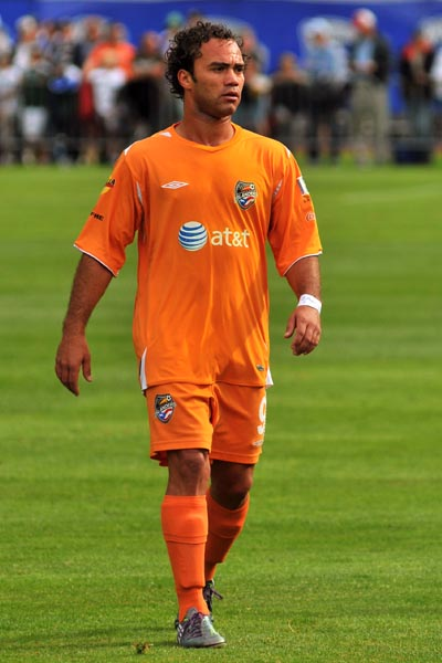 Photo of soccer player Jonathan Faña with the Puerto Rico Islanders.